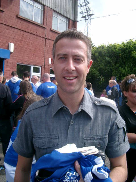 John O'Neill outside Palmerston Park, Dumfries